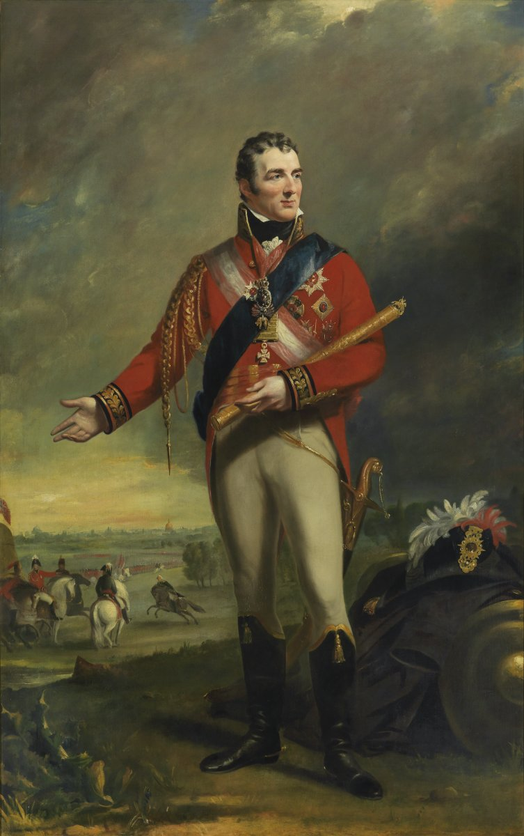 Arthur Wellesley, 1st Duke of Wellington (1769-1852) Field-Marshal & Prime Minister, by James Lonsdale, 1815. Oil on canvas, 236(H) x 145(W), inscription "sdbr". UK Government Art Collection, 5651.